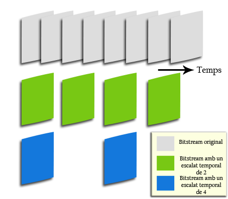 temporal escalability